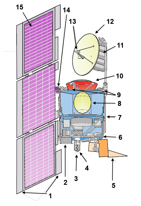 Mars Climate Orbiter - spacecraft diagram-without-labels